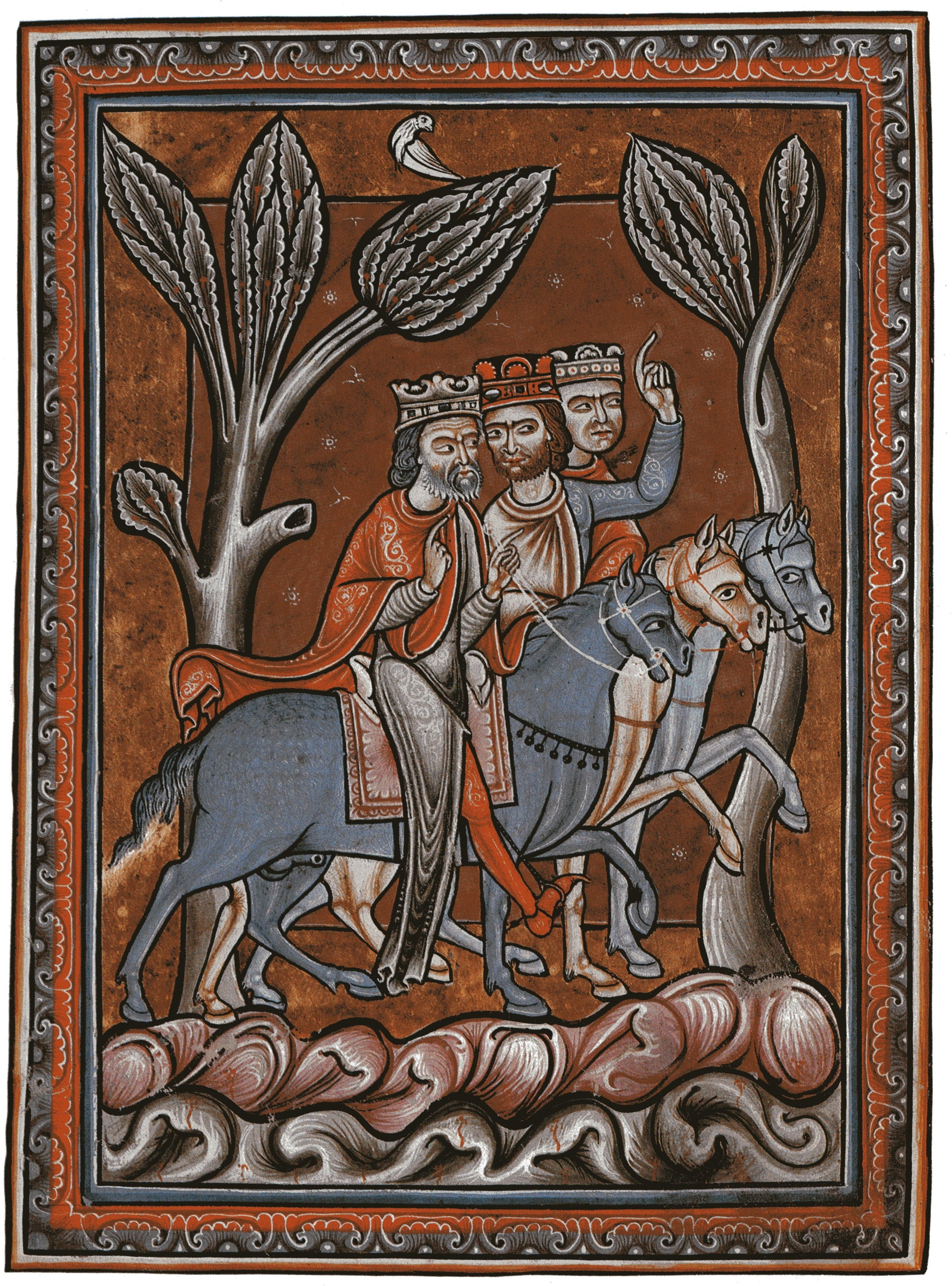 Illustration from a Psalter from northern England c. 1170–5, showing the Three Wise Men of the Christian Nativity story on their way to Bethlehem